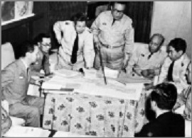 Joint Staff Council of the Japan Self-Defense Forces in 1954.